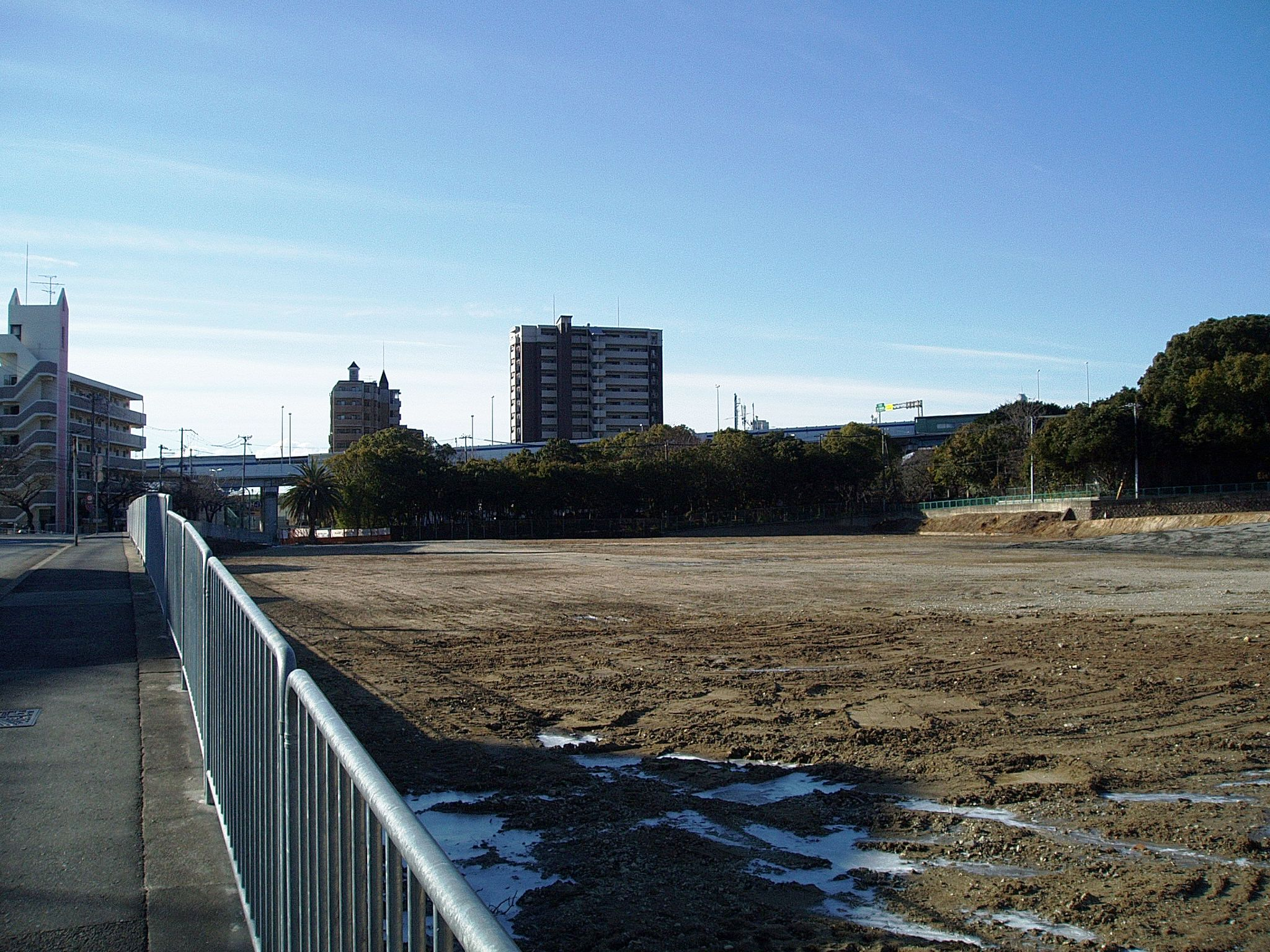 Former site of Kobe Municipal Suma High School (one of the predecessors of Suma Shofu High School), located in Suma-ku, Kobe, Hyogo, Japan.